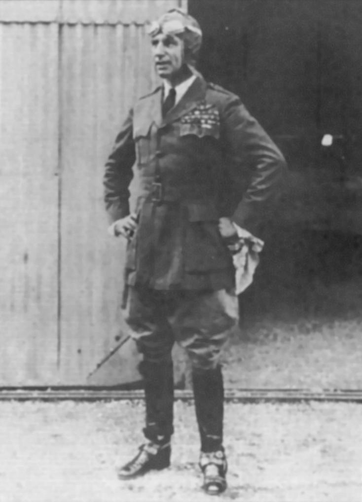 Image of Billy Mitchell from the public domain book A Concise History of the U.S. Air Force by Stephen L. McFarland.